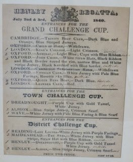 A list of entries for the 1840 Henley Regatta